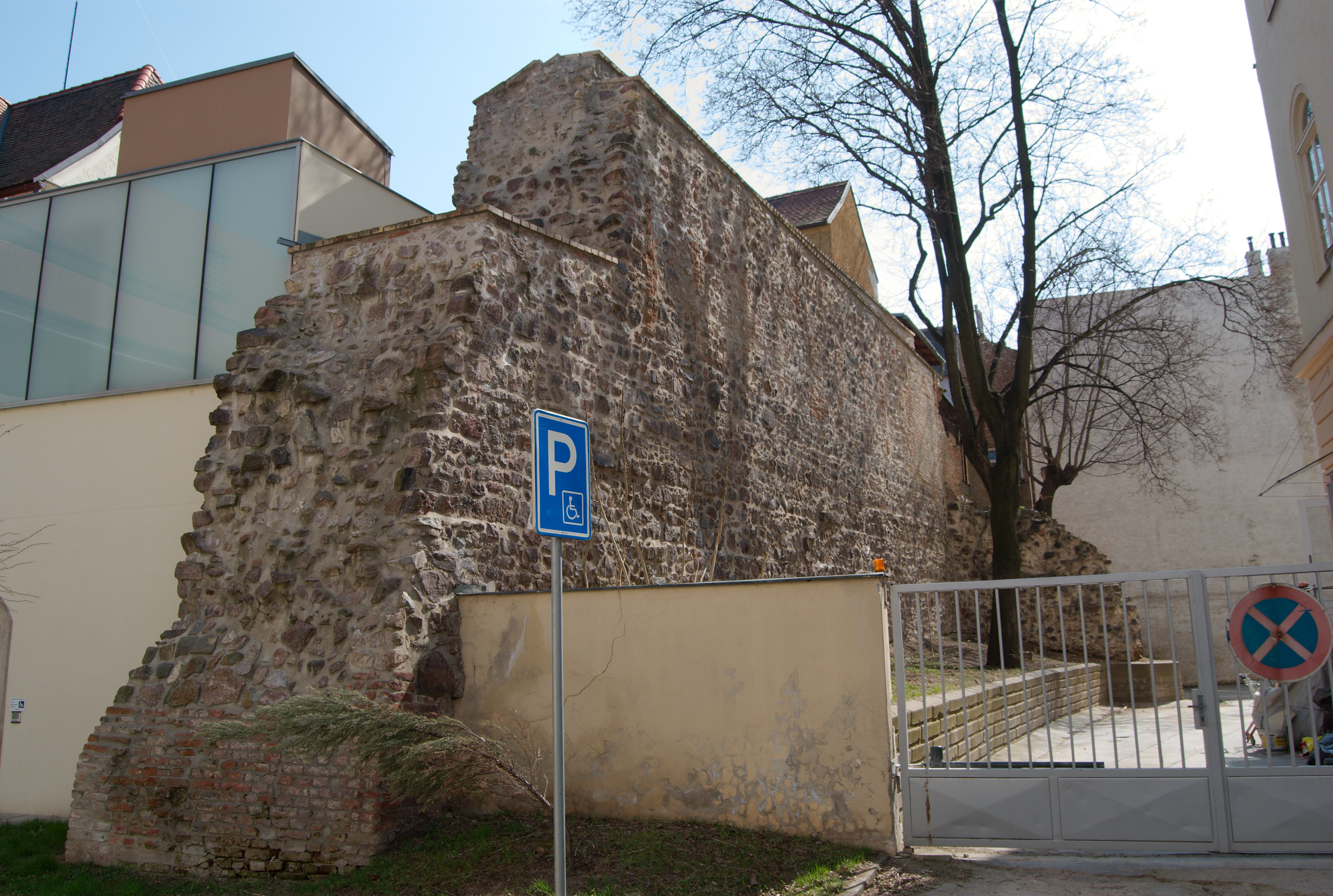 Medieval city walls of Brno